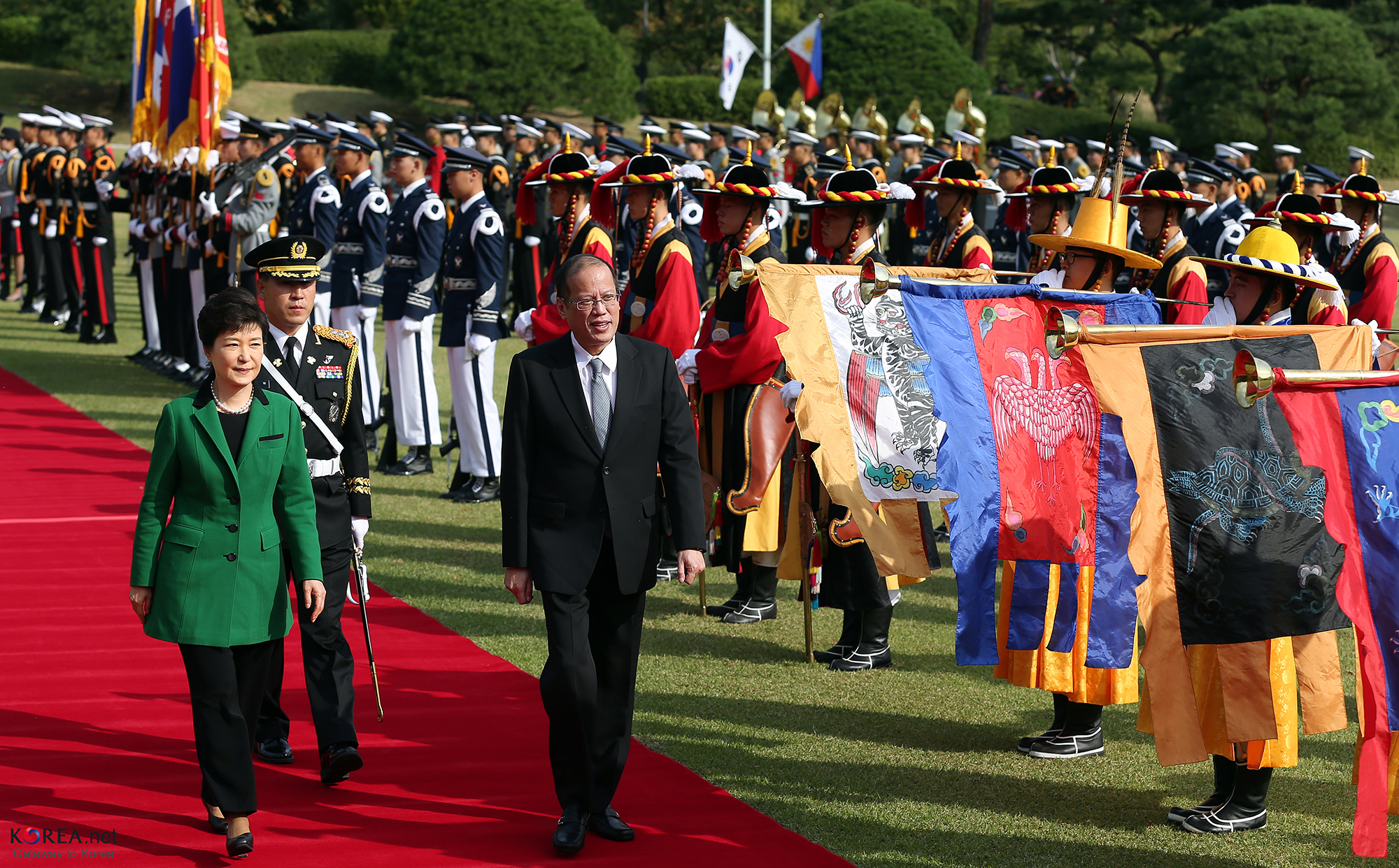 Korea-Philippines Summit President Park Geun-hye and Filipino President Benigno Aquino jointly inspect the honor guard composed of the three branches of Korea's armed forces at Cheong Wa Dae on October 17. Cheong Wa Dae, Seoul Ministry of Culture, Sports and Tourism Korean Culture and Information Service ( JEON HAN 한국-필리핀 정상회담 박근혜 대통령이 17일 국빈 방한한 베니그노 아키노 필리핀 대통령과 청와대에서 열린 공식환영식에서 의장대 사열하고 있다. 2013.10.17. 청와대, 서울 문화체육관광부 해외문화홍보원 코리아넷 전한